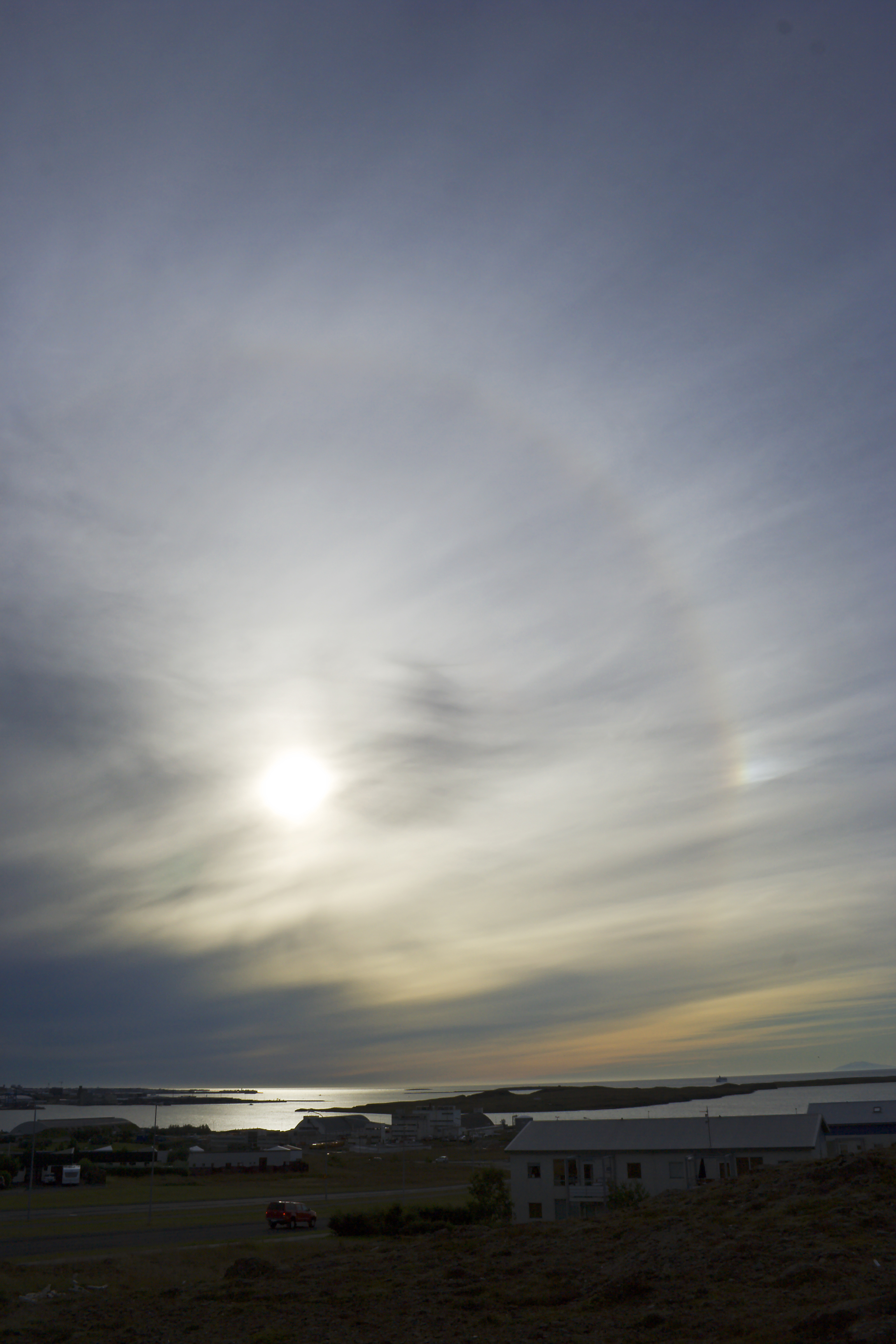 22° Halo and Sun Dog in Reykjavik, Iceland 2nd of August 2007